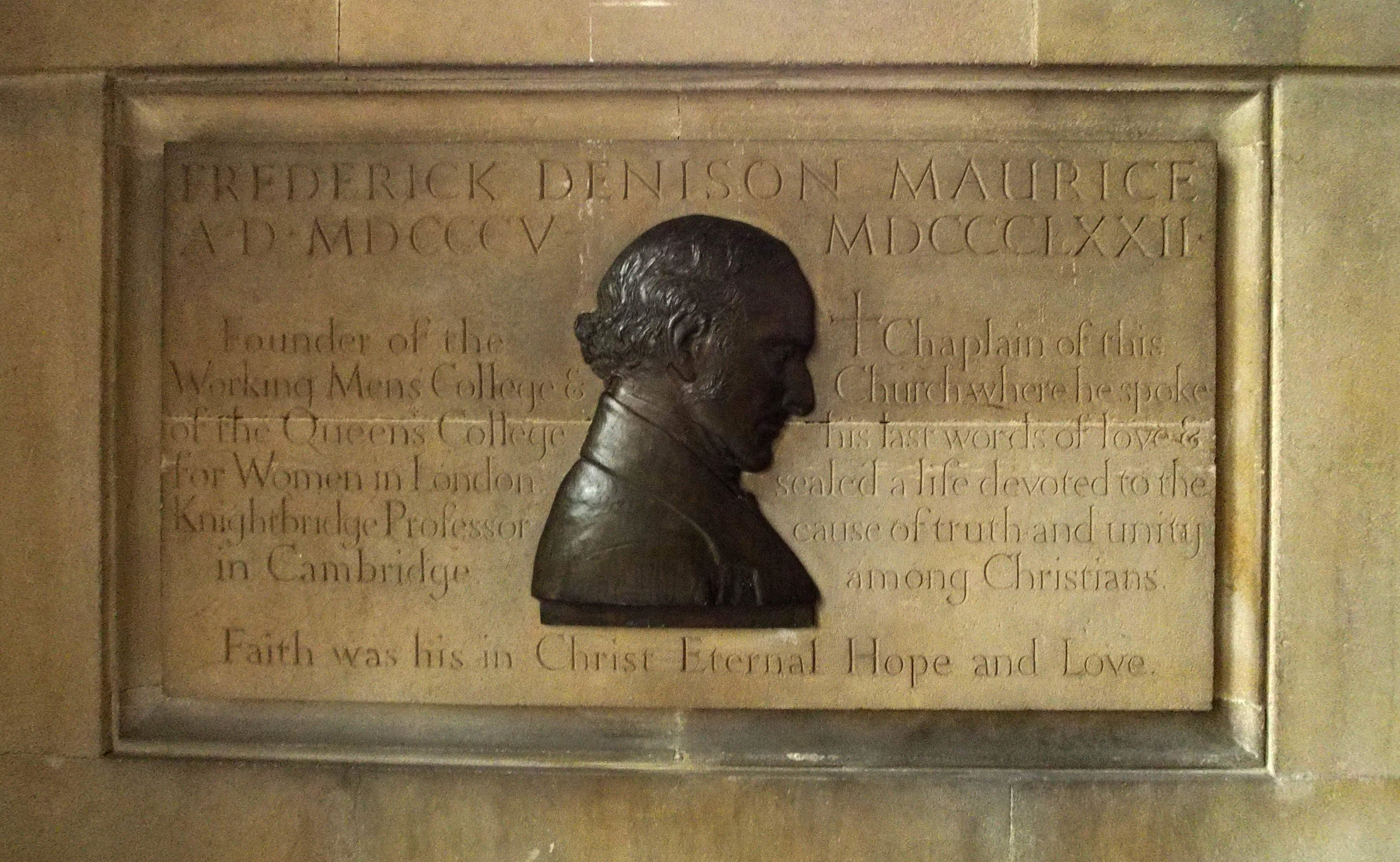 Memorial to Frederick Denison Maurice (1805–1872), English theologian, in St. Edward's Church, Cambridge.